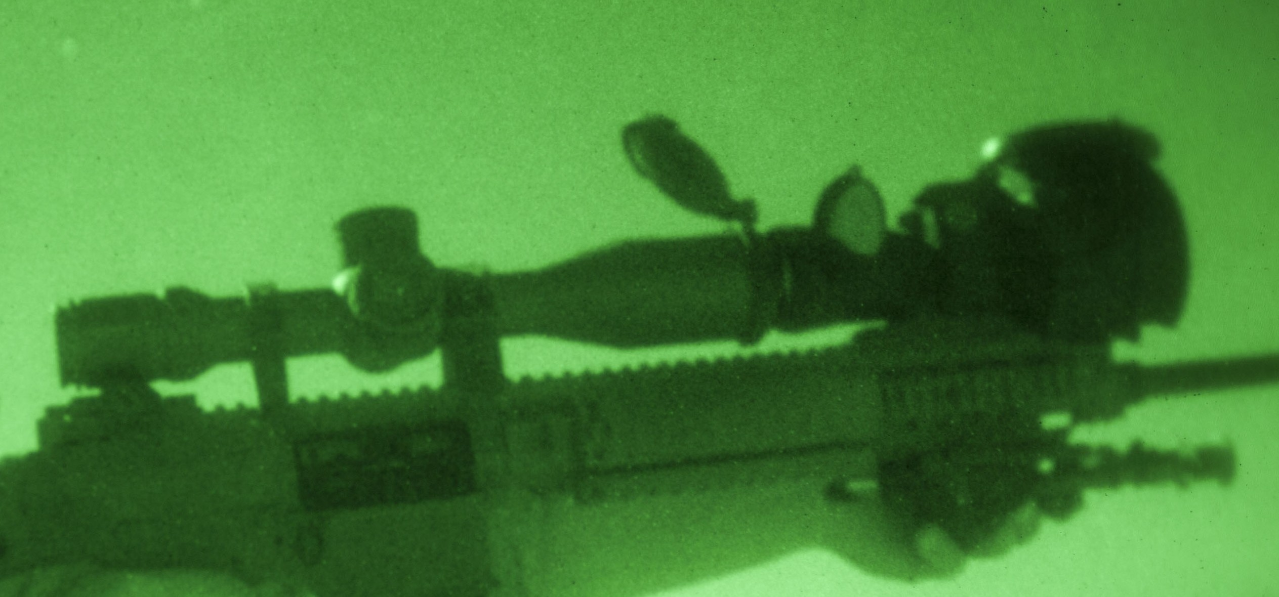 A U.S. Marine with the 26th Marine Expeditionary Unit (MEU) Maritime Raid Force fires an M110 semiautomatic sniper system during a nighttime live-fire exercise June 21, 2013, in Jordan as part of exercise Eager Lion 2013. Eager Lion is a U.S. Central Command-directed, irregular warfare-themed exercise focusing on missions the United States and its coalition partners might perform in support of global contingency operations. The 26th MEU was deployed to the U.S. 5th Fleet area of responsibility with the Kearsarge Amphibious Ready Group.